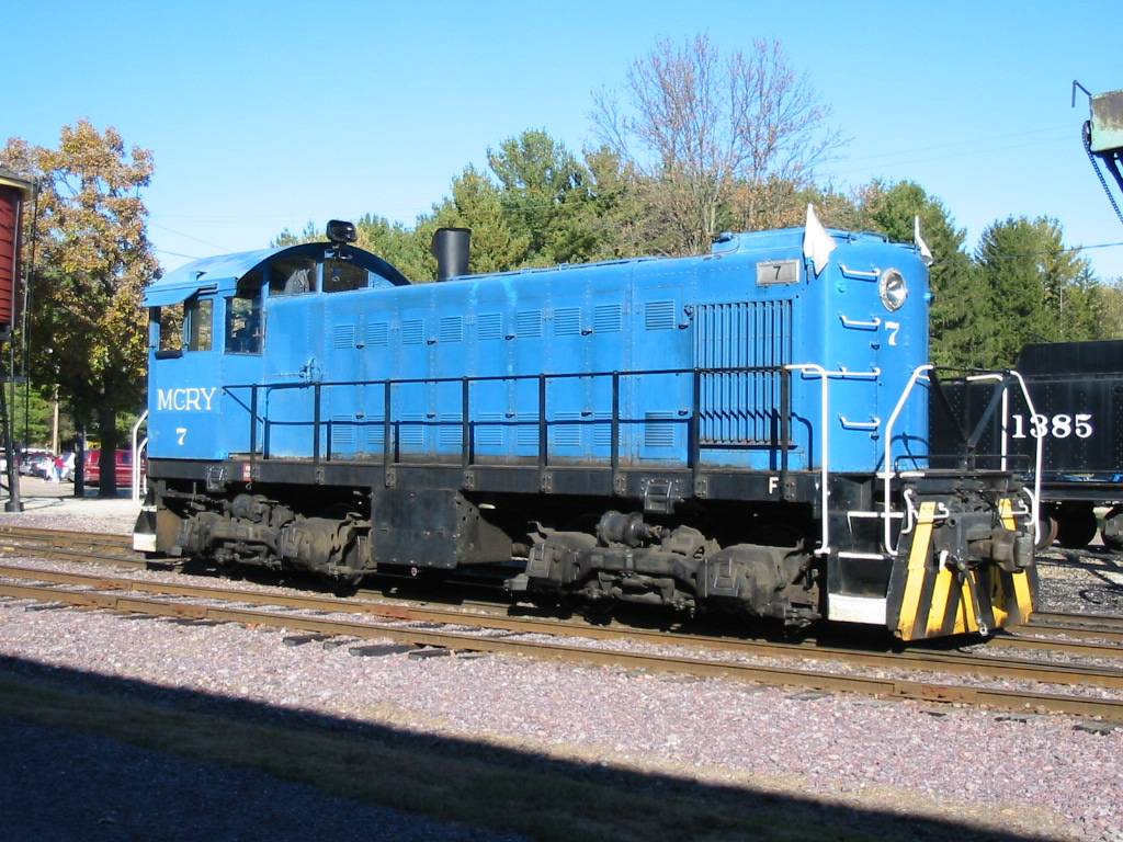 MidContinent Railway #7 (ALCO S-1) pauses between trains Photo by Sean Lamb (Slambo) October 10 2004